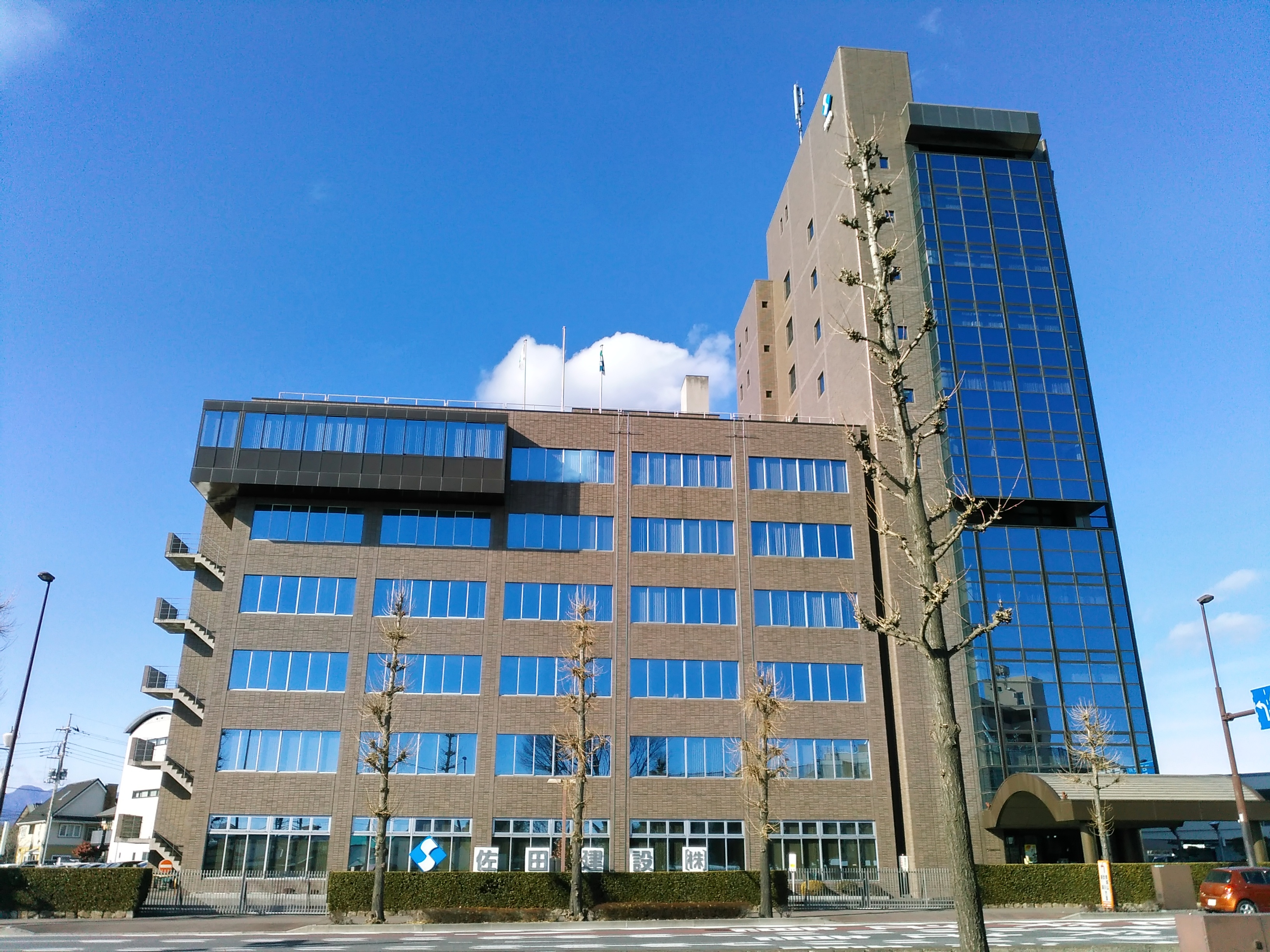 The headquarters office of Sata Construction Co., Ltd. (TYO: 1826) located in Maebashi, Gunma, Japan. Viewed from the south east, across the National Route 17.